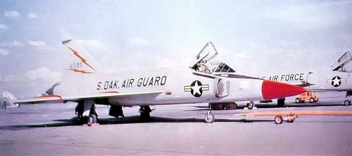 175th Tactical Fighter Squadron Convair F-102A-70-CO Delta Dagger 56-1293